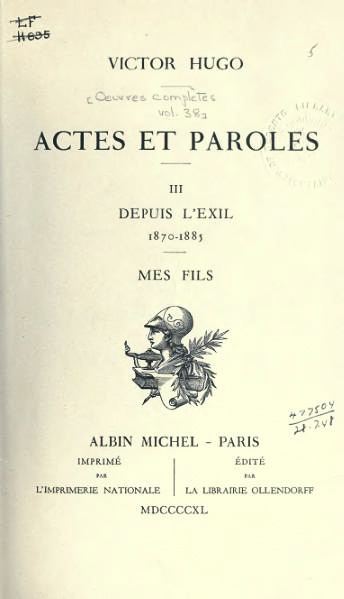 Oeuvres complètes de Victor Hugo. Actes et paroles 1 Depuis l'exil